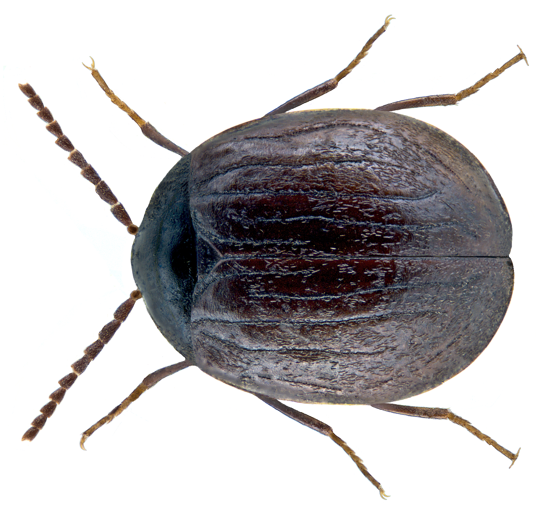 Family: Psephenidae (Dascillidae) File size: 2,4 mm (2,0 to 2,6 mm) Distribution: Europe (excluding Scandinavia) Ecology: in damp places Location: Germany, Upper Bavaria, Oberstdorf, Weidach, 850 m leg det. U.Schmidt, 22.VI.2005 Photo: U.Schmidt, 2015